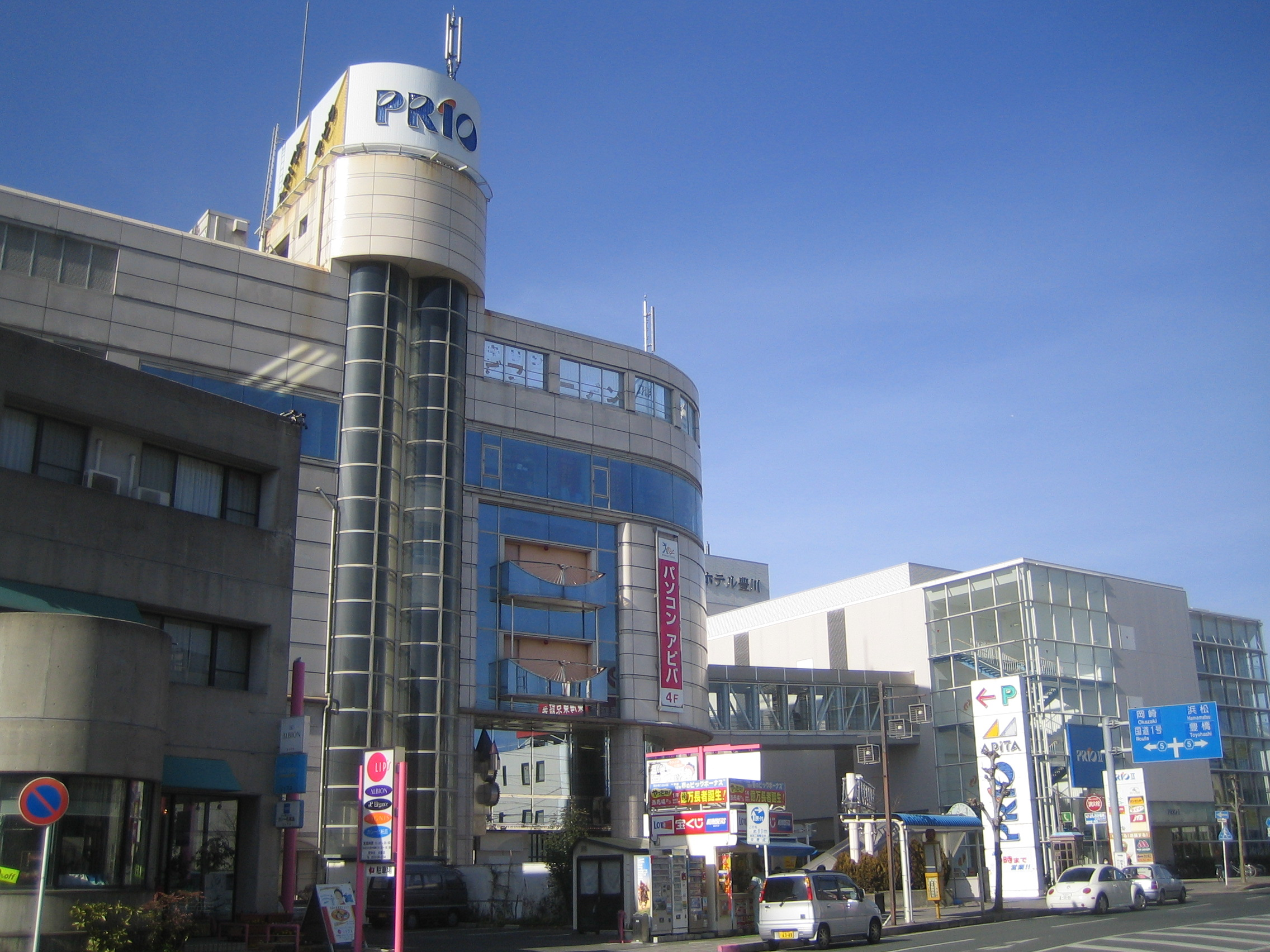 Shopping center "PRIO", located at Suwa, Toyokawa, Aichi, Japan